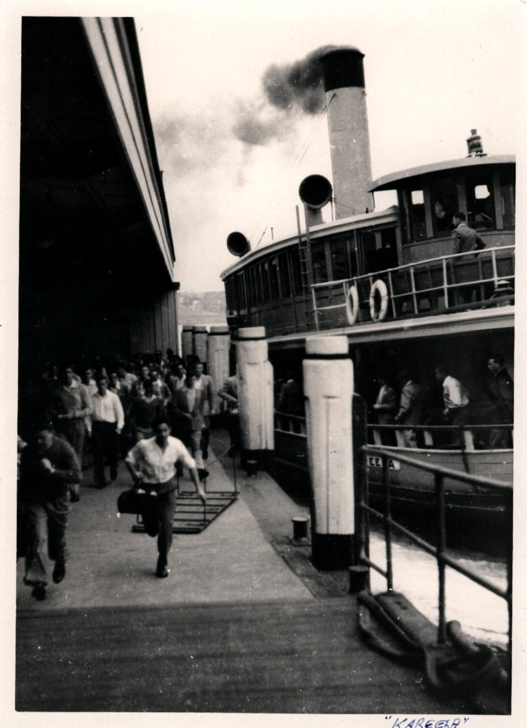 Sydney ferry KAREELA arrives at Circular Quay 1950s. Graeme Andrews, Ferry KAREELA berthing at Quay. (01/01/1950 - 31/12/1959), [A-00080320]. City of Sydney Archives, accessed 24 May 2020